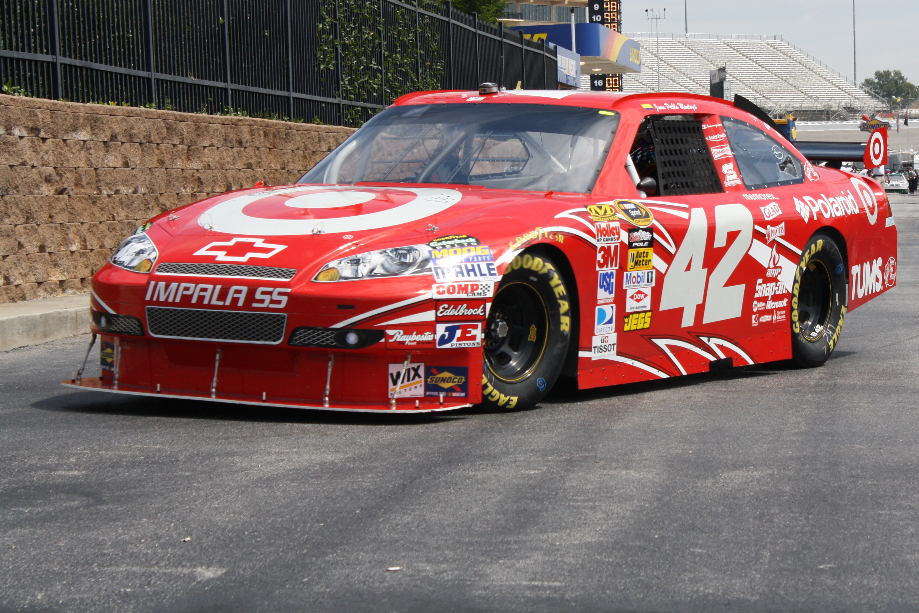 JPM heading to practice in Atlanta